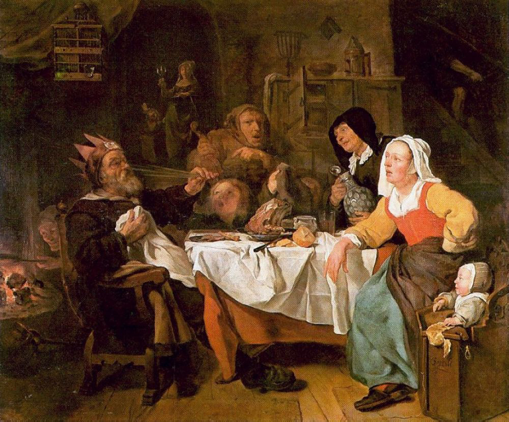 Twelfth Night